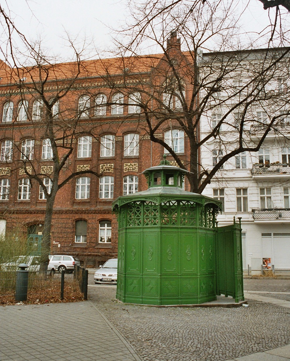 A typical historic Berlin outdoor urinal, also called "Cafe Achteck" (cafe octagon).